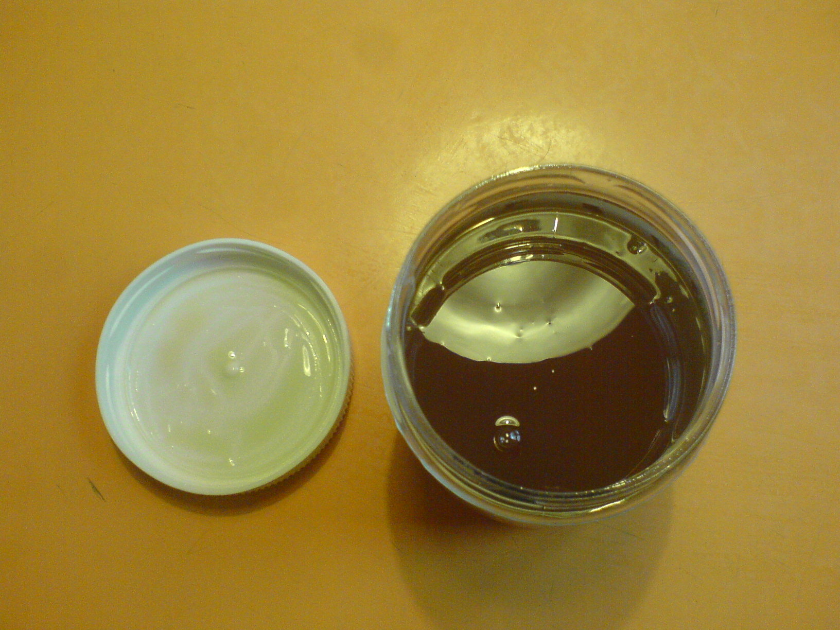 rice syrup from Belgium. in a plastic jar.